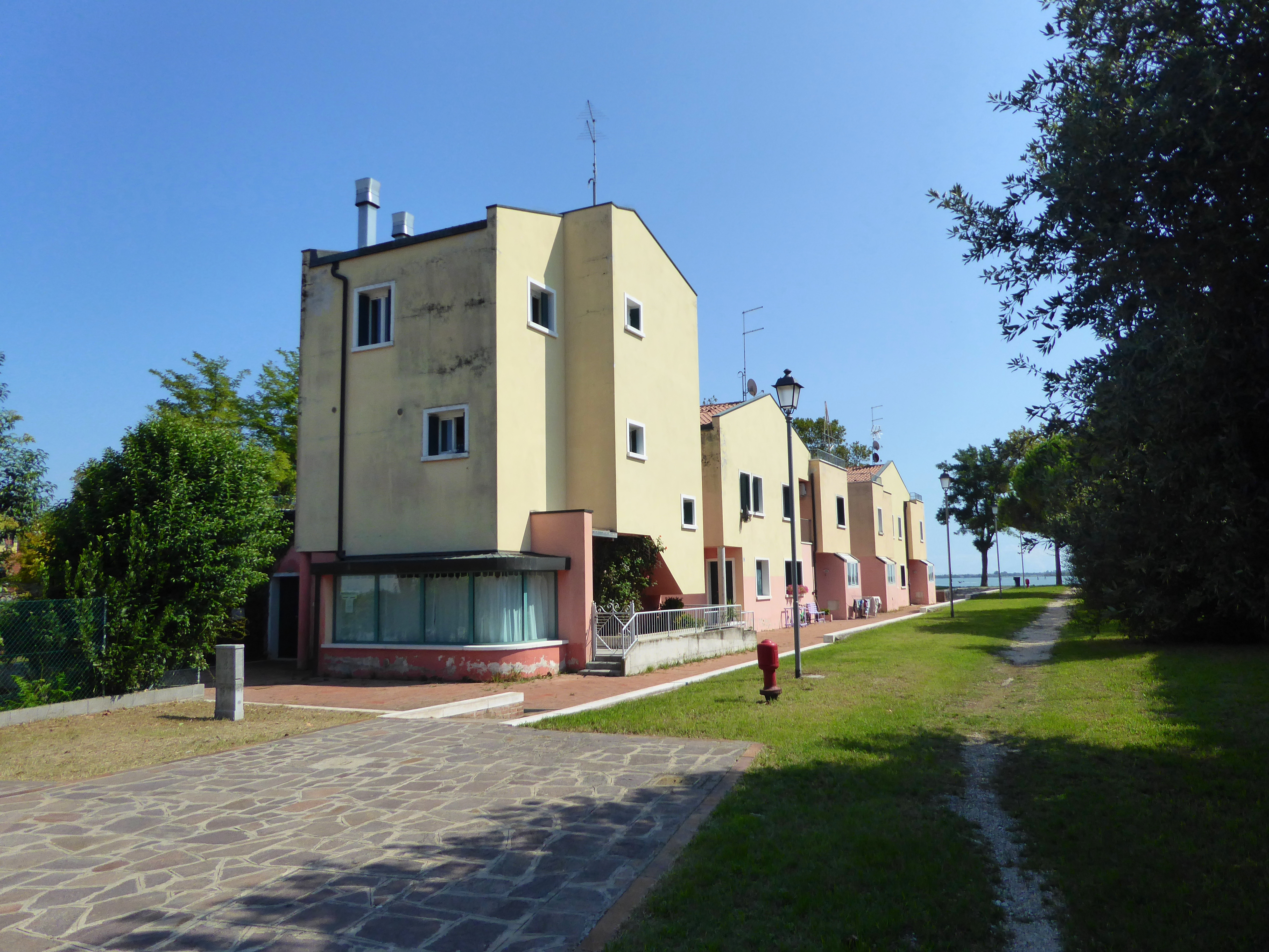 Houses in the centre of Mazzorbo in Veneto.